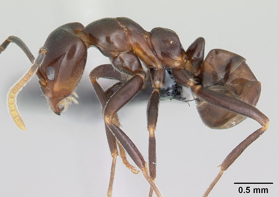 Profile view of ant Papyrius nitidus specimen casent0070200.